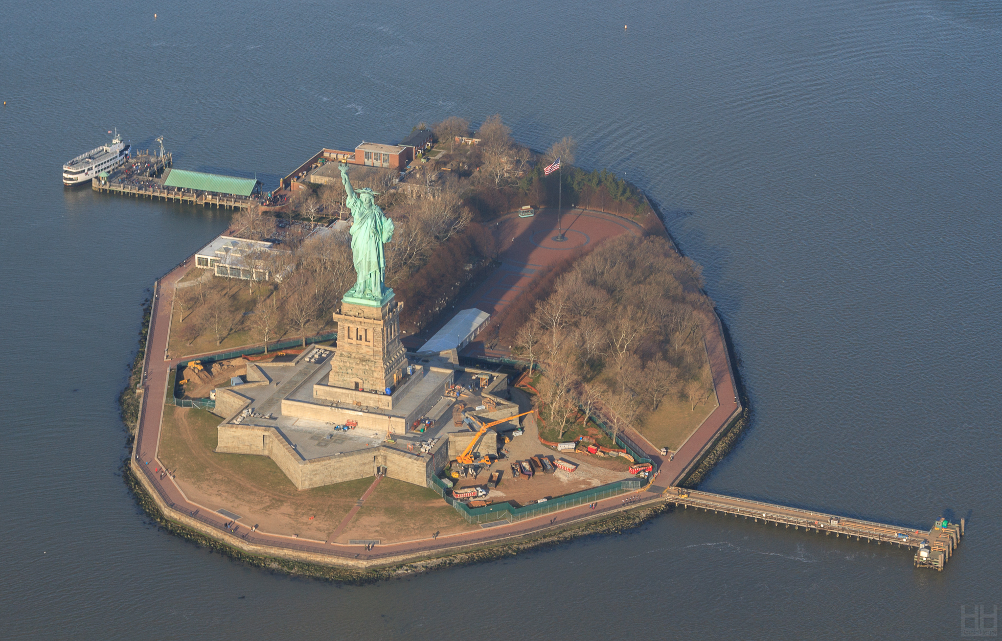 The French Freedom Present Statue of Liberty, New York, USA